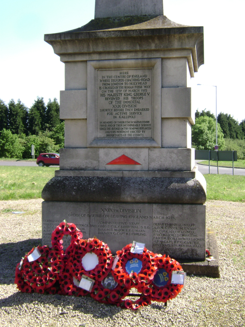 Inscriptions on the memorial to the 29th Division. The convoluted dedication commemorates the review of the Division by King George V before its departure for Gallipoli in March 1915. It makes no mention of the 250,000 Allied troops who died in the space of nine months in the disastrous Gallipoli campaign, before the evacuation completed in January 1916. Memories were still fresh; anger and resentment had not subsided. From reports of the time it is clear that people understood that this was a memorial to those who died so pointlessly. 37611 1432543 The Turkish losses were even greater: 251,000 men killed at Gallipoli.